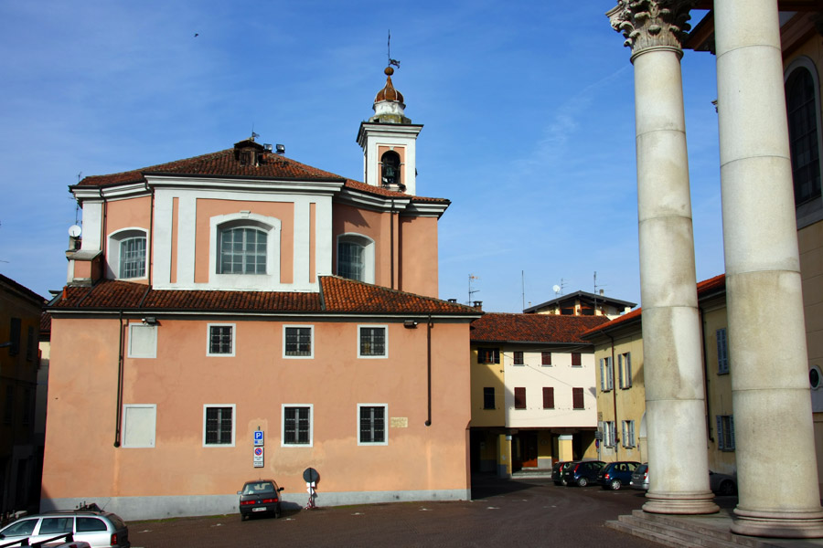 Chiesa di Santa Maria Annunciata a Oleggio (NO), a lato della chiesa parrocchiale